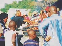 friends and family come and enjoy their kapana